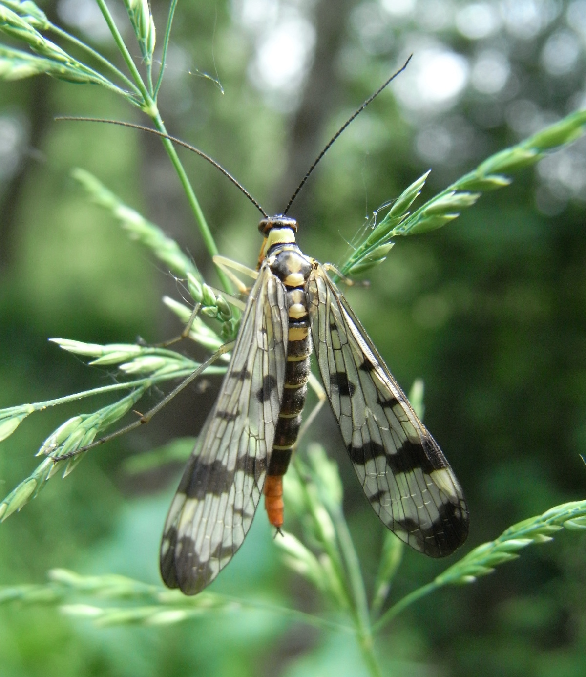 Common scorpion fly (Panorpa communis), female.